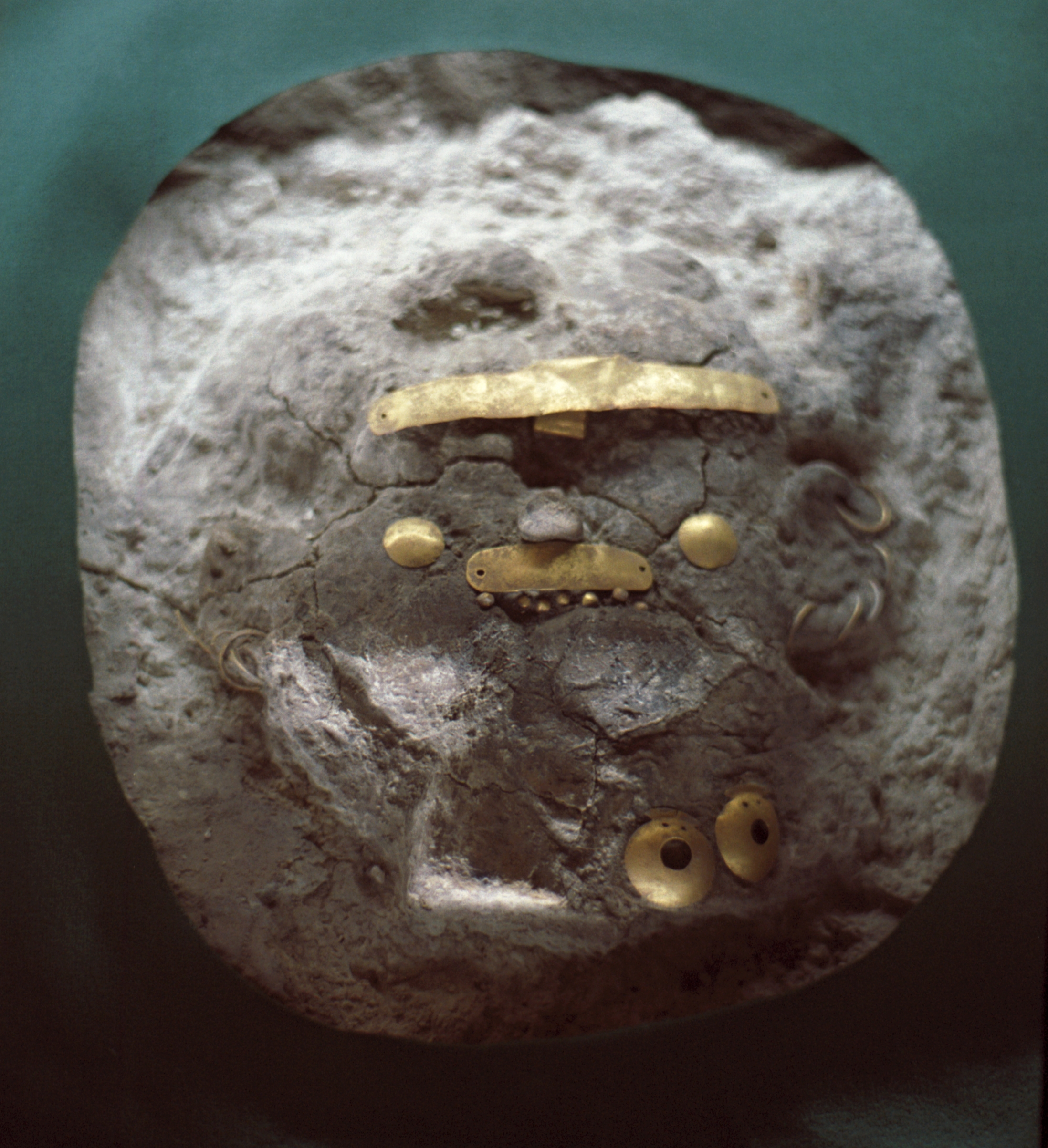 Imprint of the face and funeral golden jewelry. Predecessor of gold funerary mask? Burial place near Varna. Chalcolithic, 4600-4200 BC. Varna Archaeological Museum.